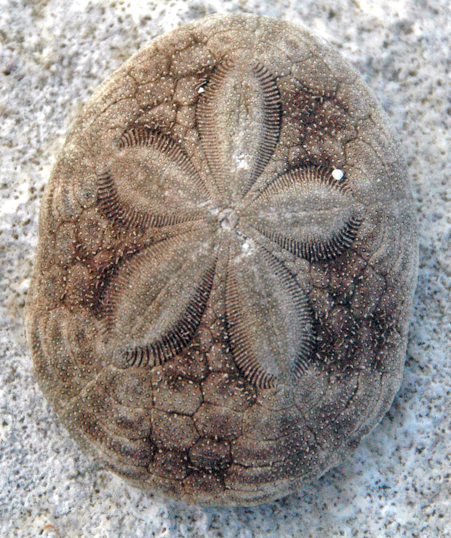 Clypeaster rosaceus Lamarck, 1816 - washed ashore onto a rocky shoreline. Irregular echinoids have somewhat globular skeletons (tests) composed of interlocking calcite plates and covered in short, fur-like spines. The skeleton is bilaterally symmetrical, not pentaradially symmetrical as in the sea urchins. The upper side of the skeleton has the pattern of a 5-petaled star - each petal is an ambulacrum. The mouth and anus are at opposite ends of the long axis of the skeleton. Heart urchins are infaunal deposit feeders - they consume bulk sediments, digest any organic matter mixed in, and excrete large quantities of sediments. In the specimen shown above, decay has resulted in the spines being detached - the small pustules are spine attachment bases. Locality: beach landward from Snapshot Reef, Fernandez Bay, western San Salvador Island, eastern Bahamas